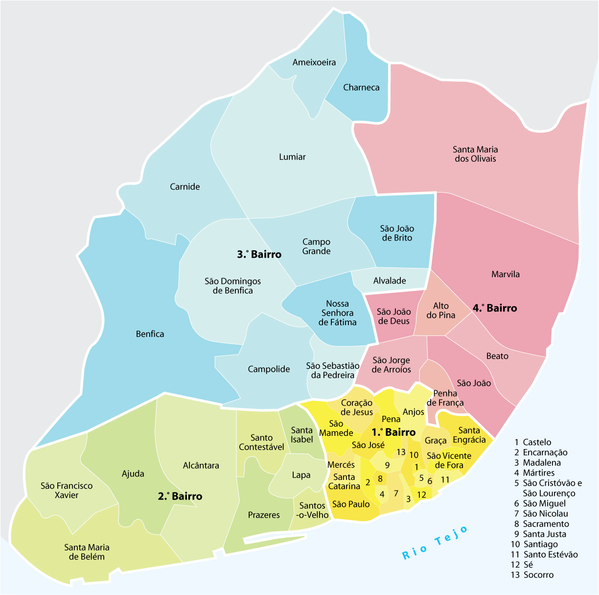 Map of the quarters and civil parishes of Lisbon